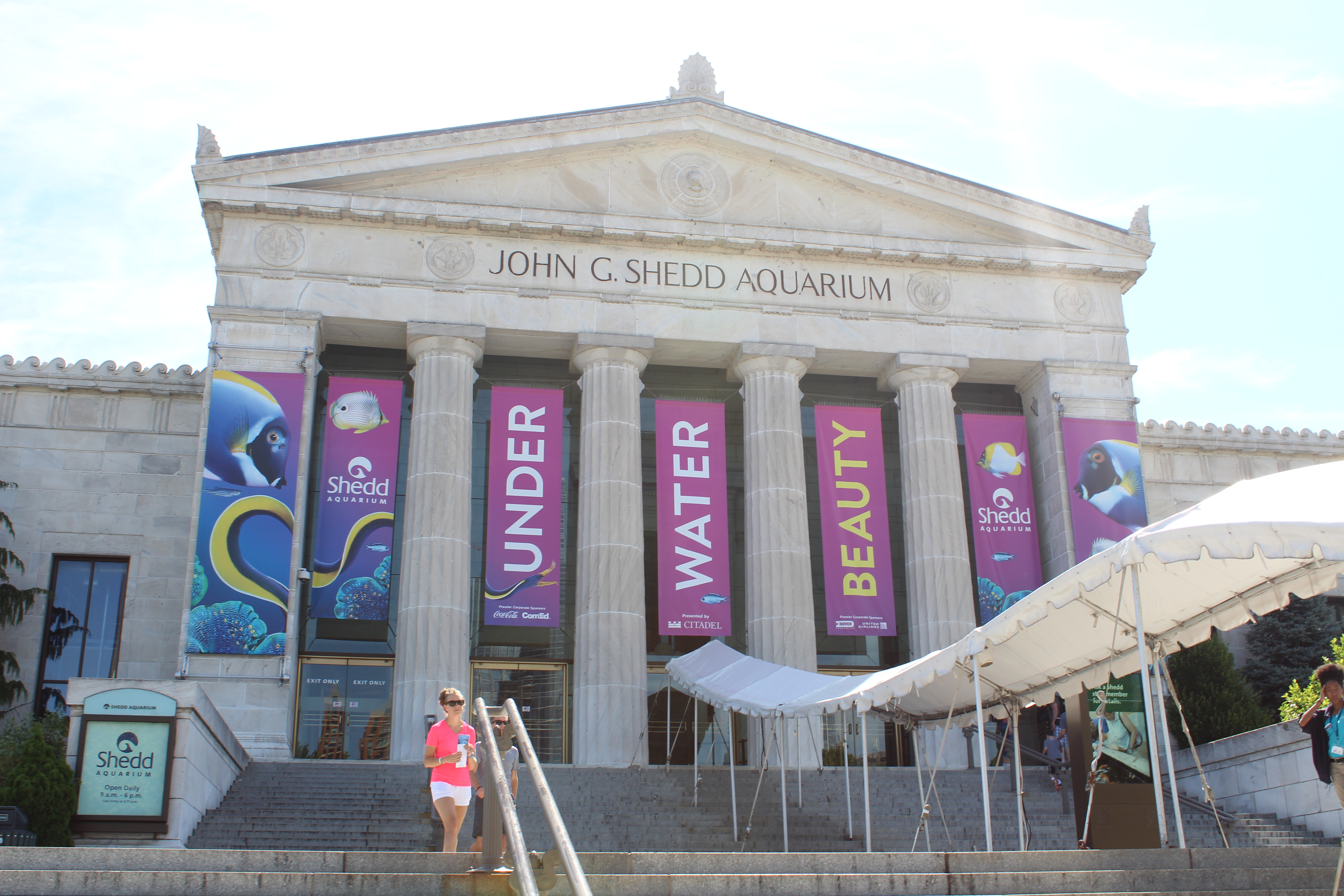 View of the entrance of the Shedd Aquarium in July 2018